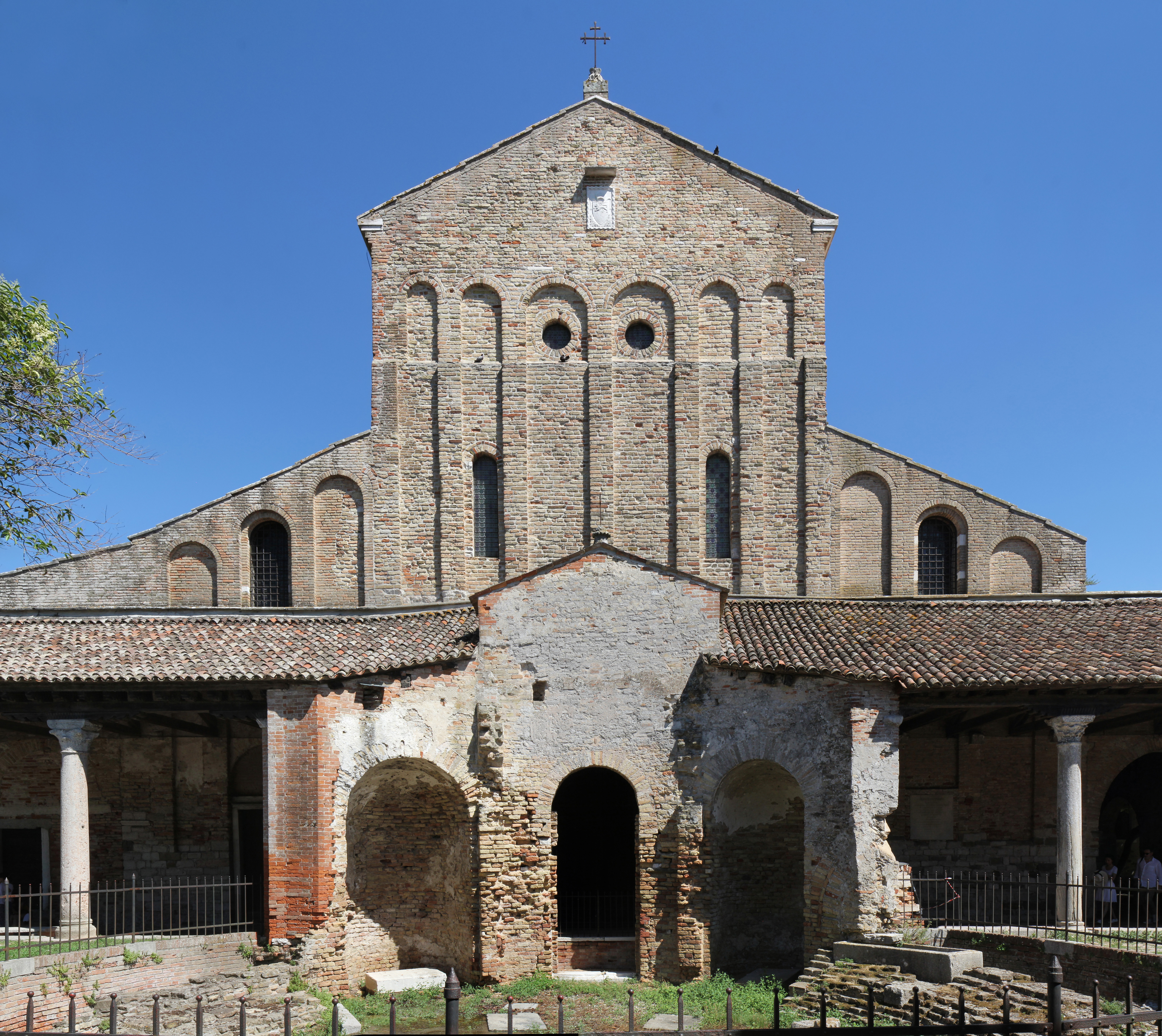 North west facade of Santa Maria Assunta, Torcello, Italy.